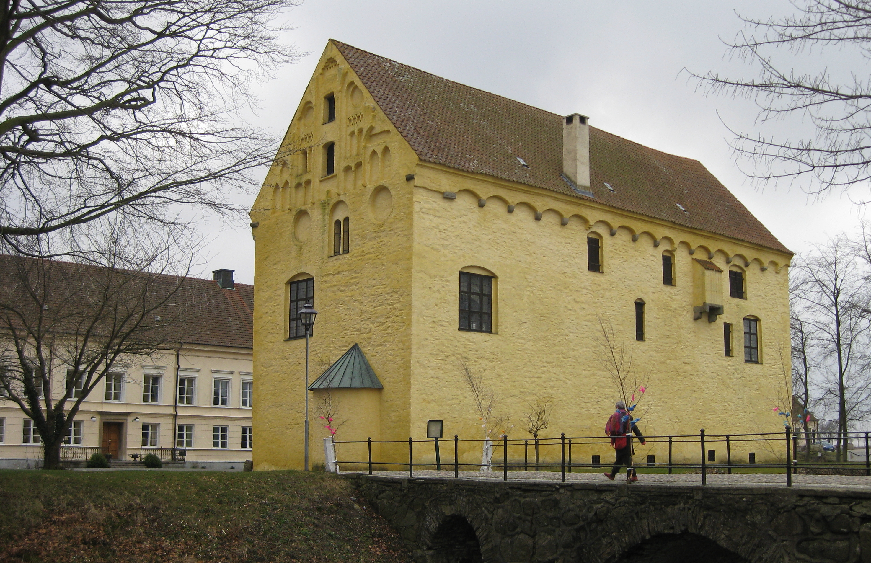 Bollerup, castle